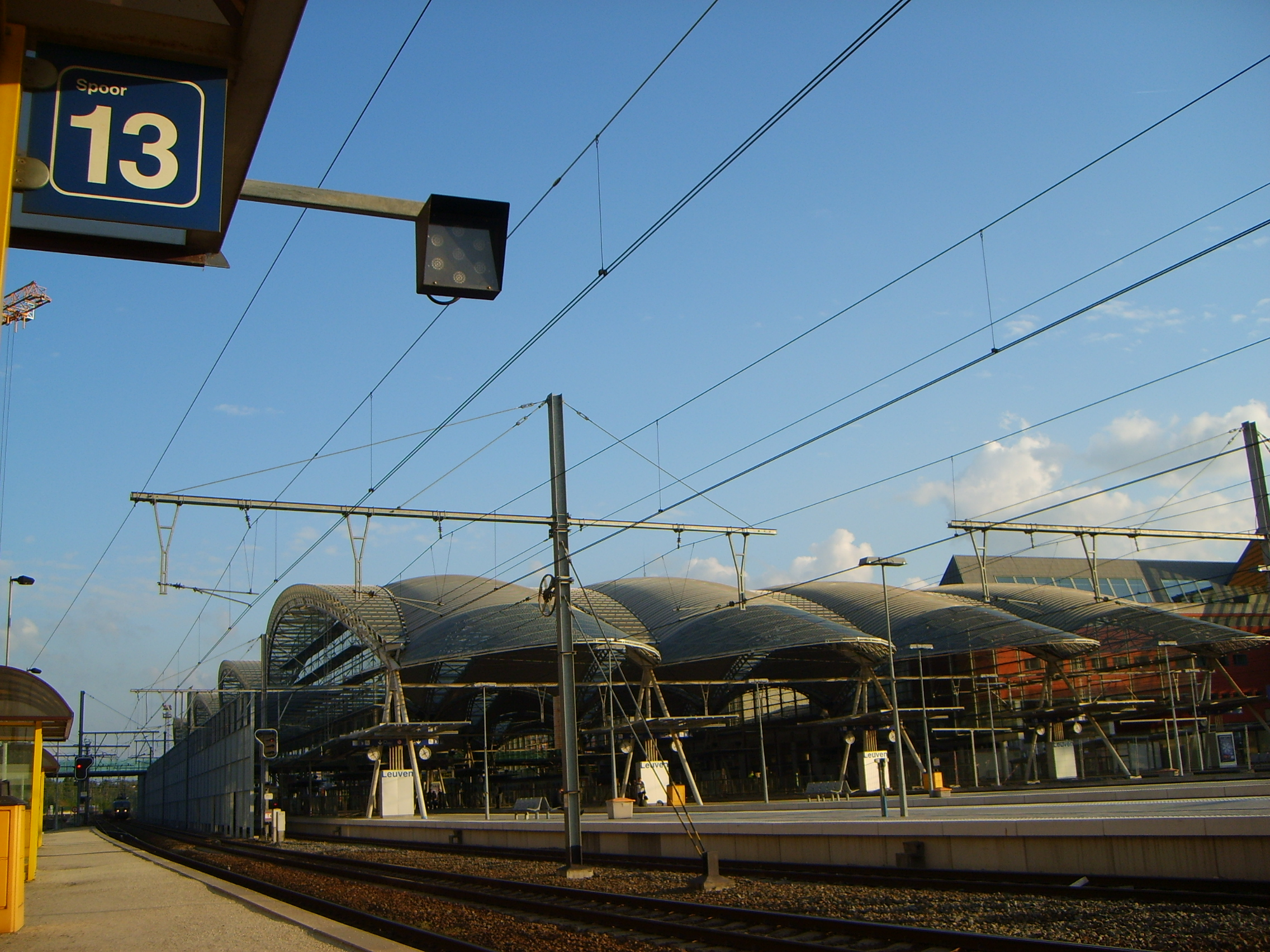 Leuven train station.